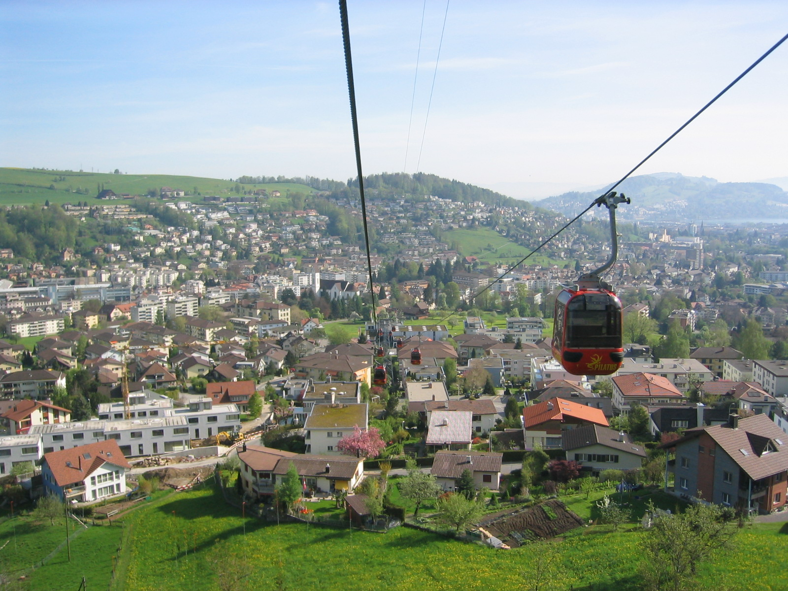 Pilatus